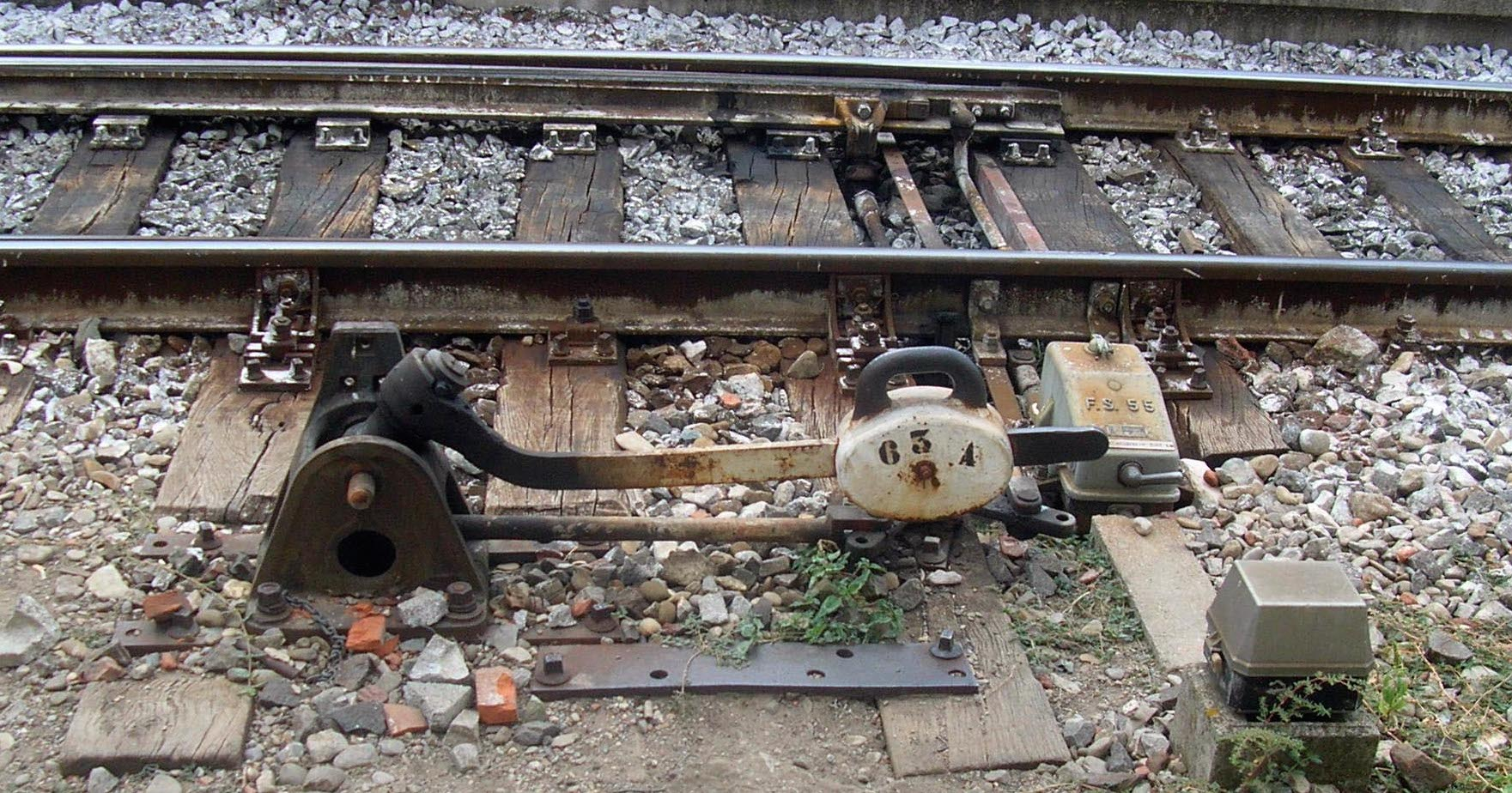 railroad switch electrical clamping mechanism, FS55 type